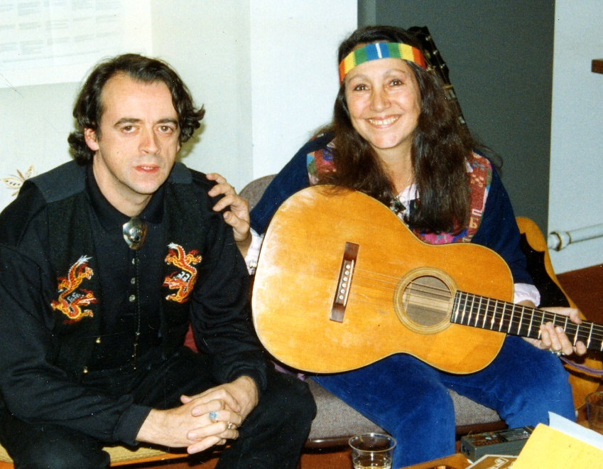 Photograph of Bill Lewis and Julie Felix